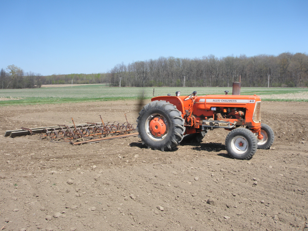 An Allis-Chalmers D17 tractor with a 12 foot spring tooth (drag) harrow.